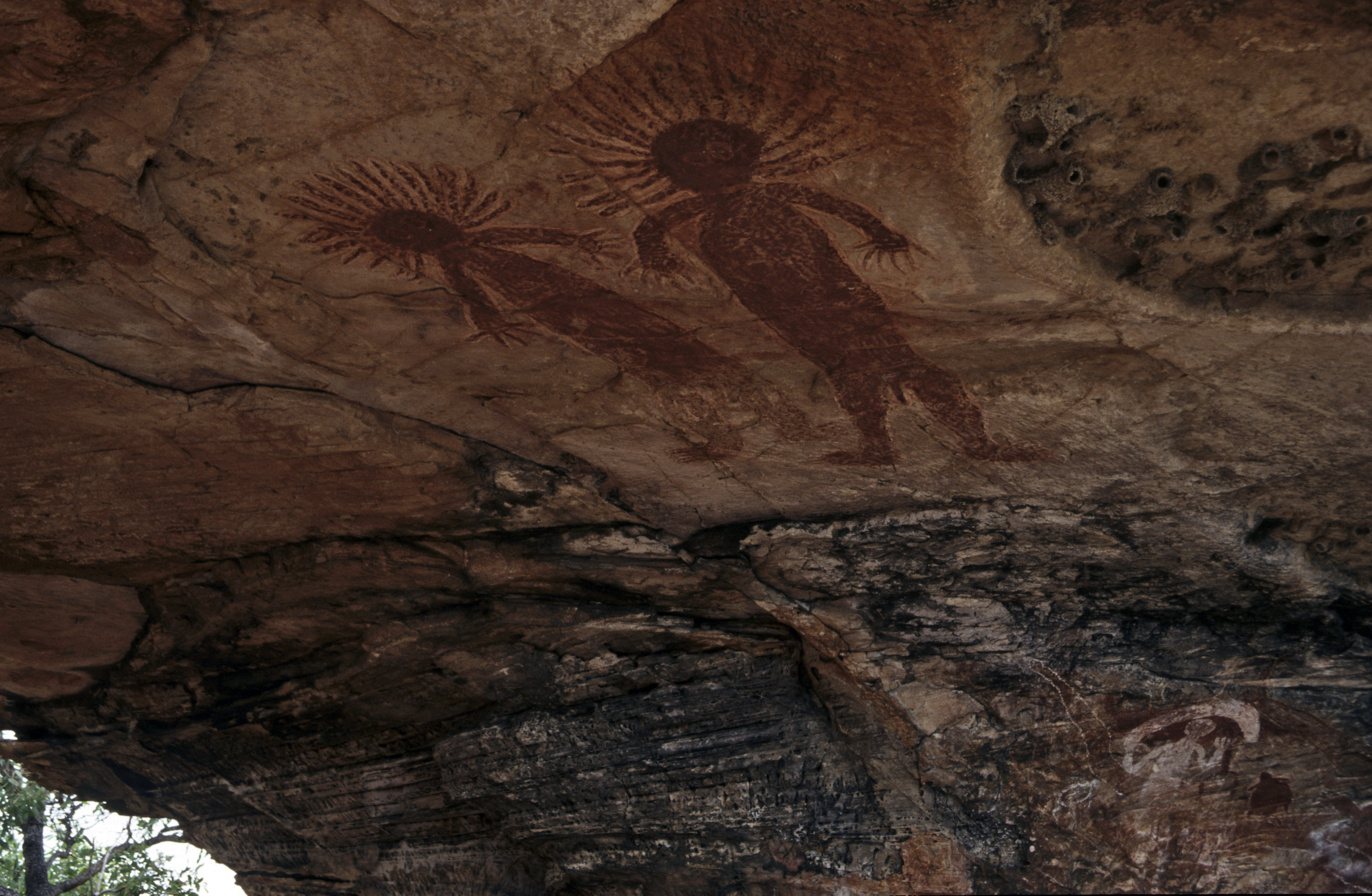 Keep-River-Nationalpark, Aboriginal Rock Paintings at Nganalam Rock Art Site